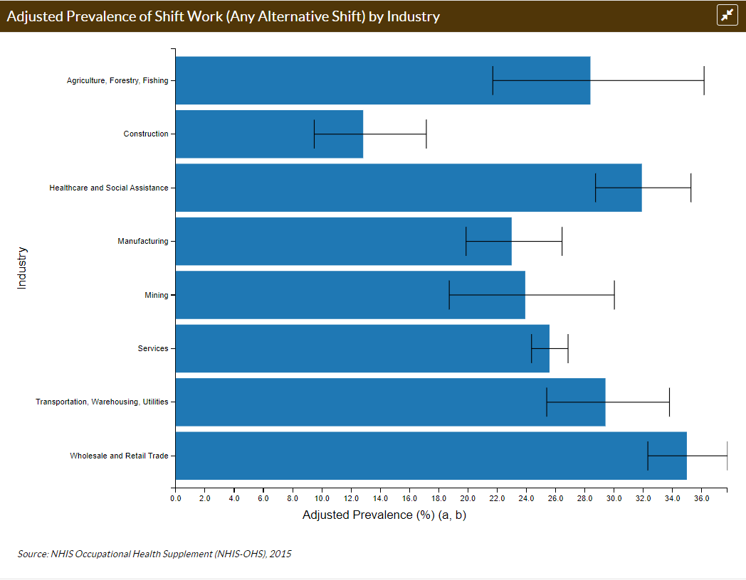 Adjusted Prevalence of Shift Work (Any Alternative Shift) by Industry